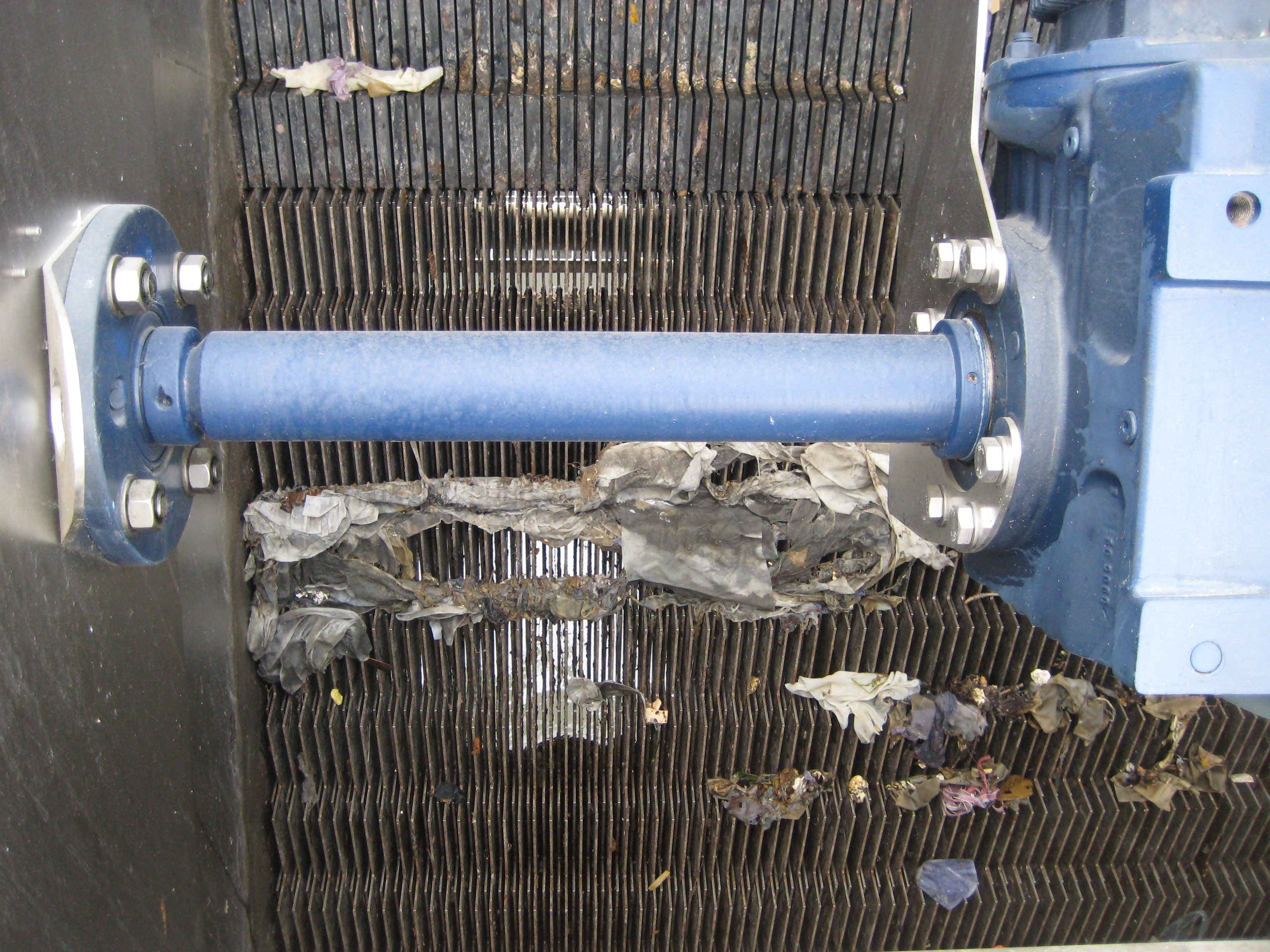 Stepscreen at a municipal waste water treatment plant in Flanders (Belgium) removing waste with sizes above 6mm